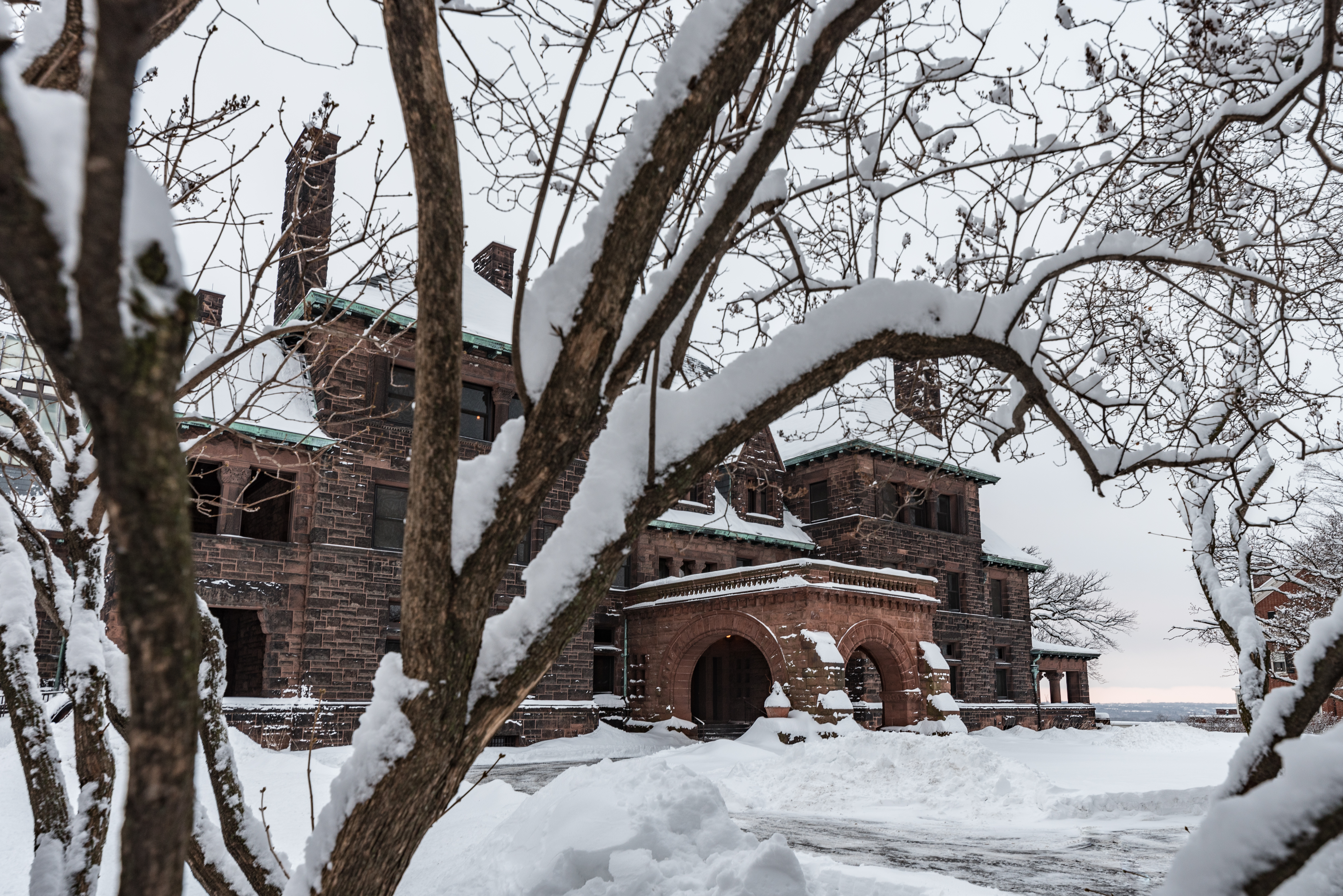 The James J. Hill House on Summit Avenue on a snowy morning in Saint Paul, Minnesota.